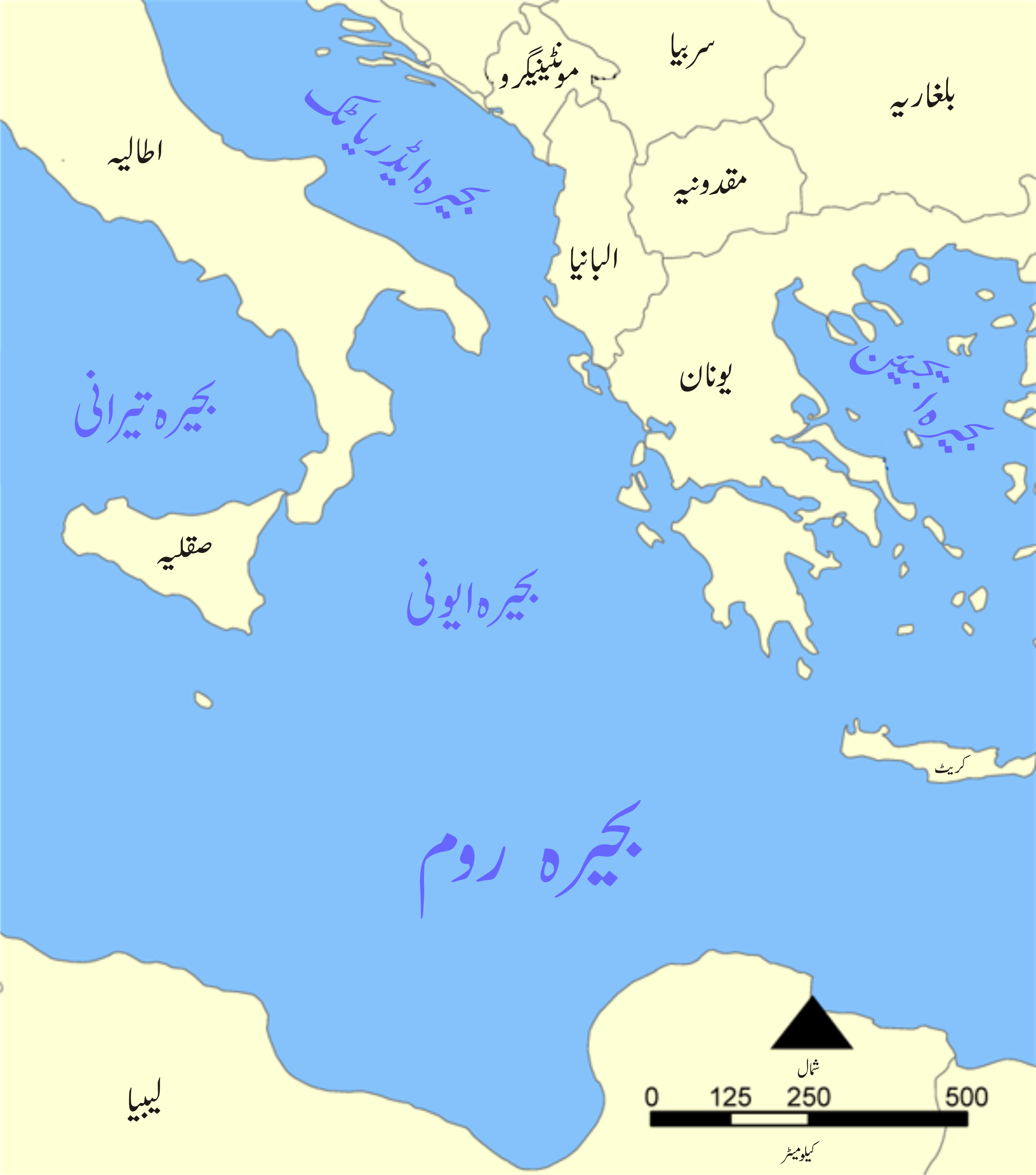 Ionian Sea map Urdu